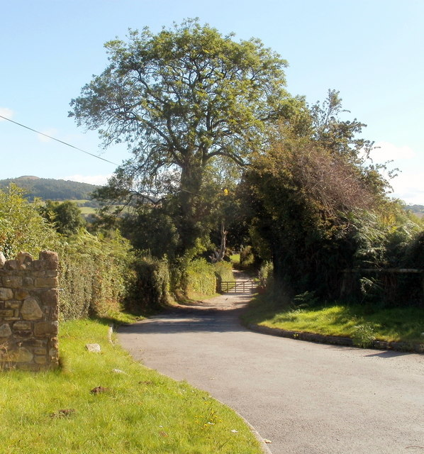 Access road to Grove Farm, Llanfoist